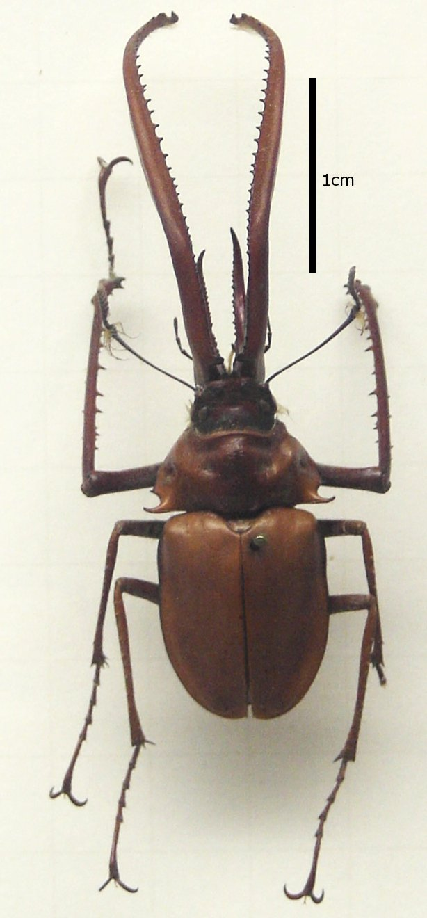 Chiasognathus grantii (Lucanidae), mounted specimen from South America.